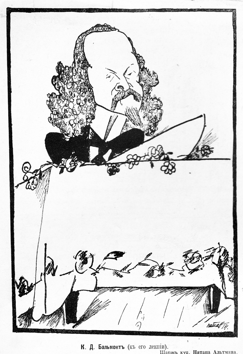 Konstantin Balmont, caricature by Natan Altman